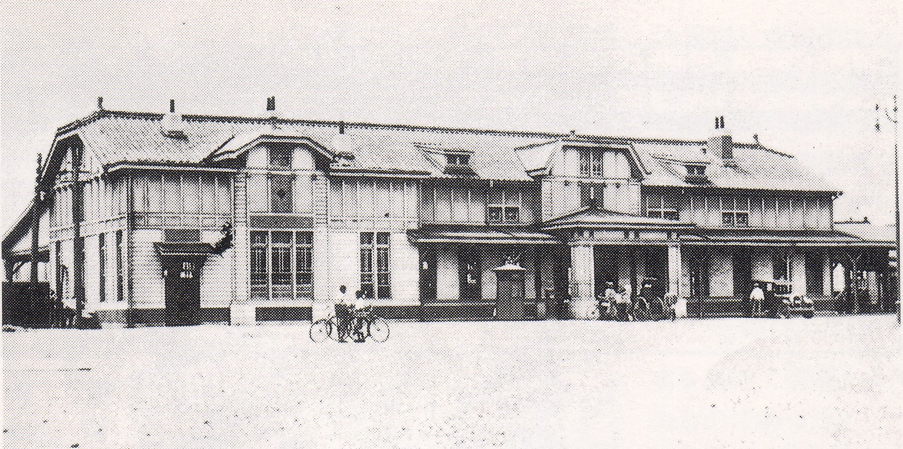 The main station building of Wakamatsu station in Taisho era, Kitakyushu city Fukuoka prefecture Japan.